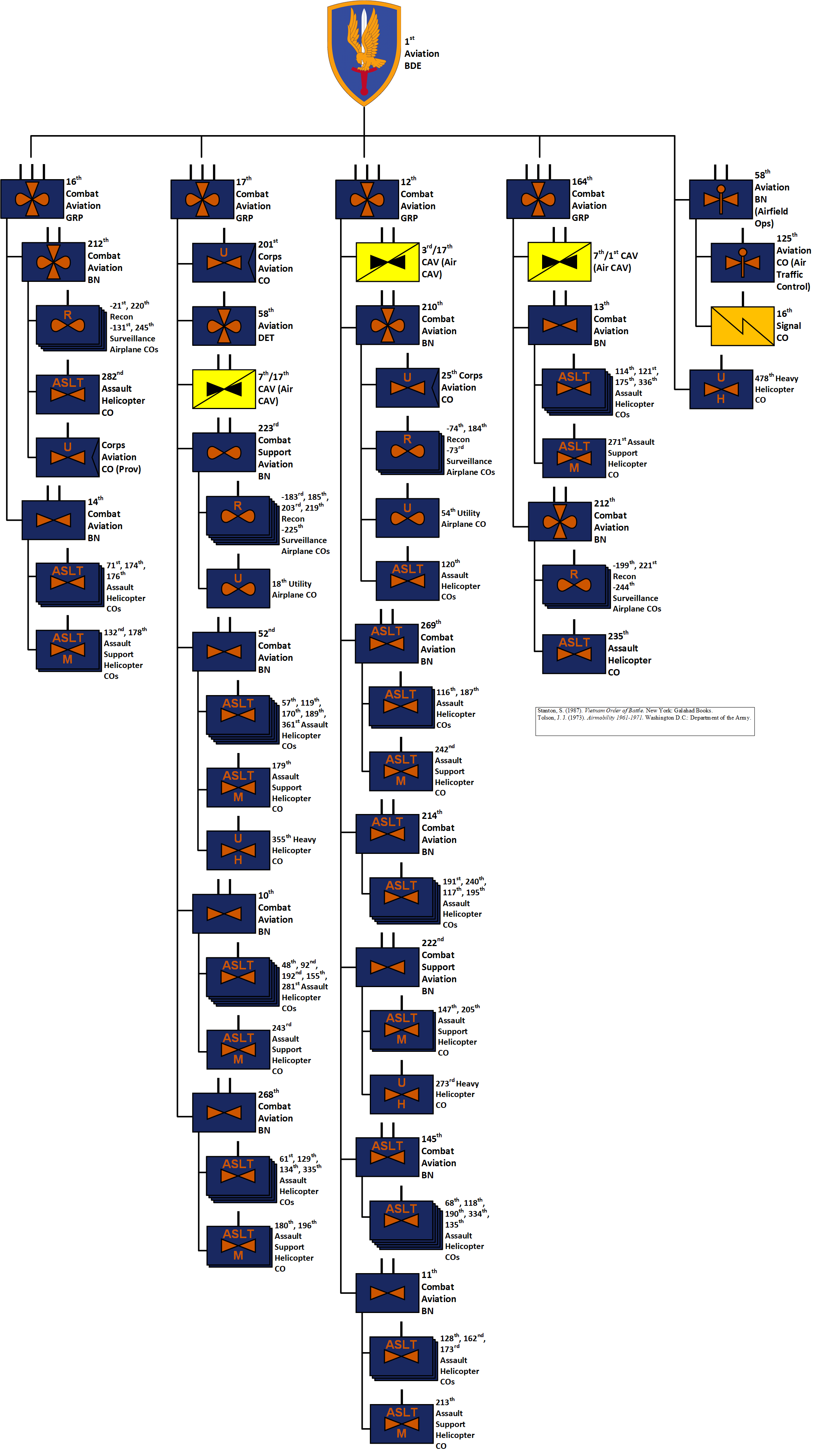 Graphic depicting organization of the 1st Aviation Brigade in August 1968